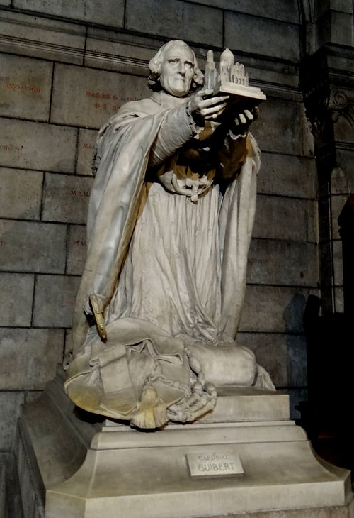 Statue of Cardinal Guibert in the crypt of the Basilica of the Sacred Heart of Montmartre